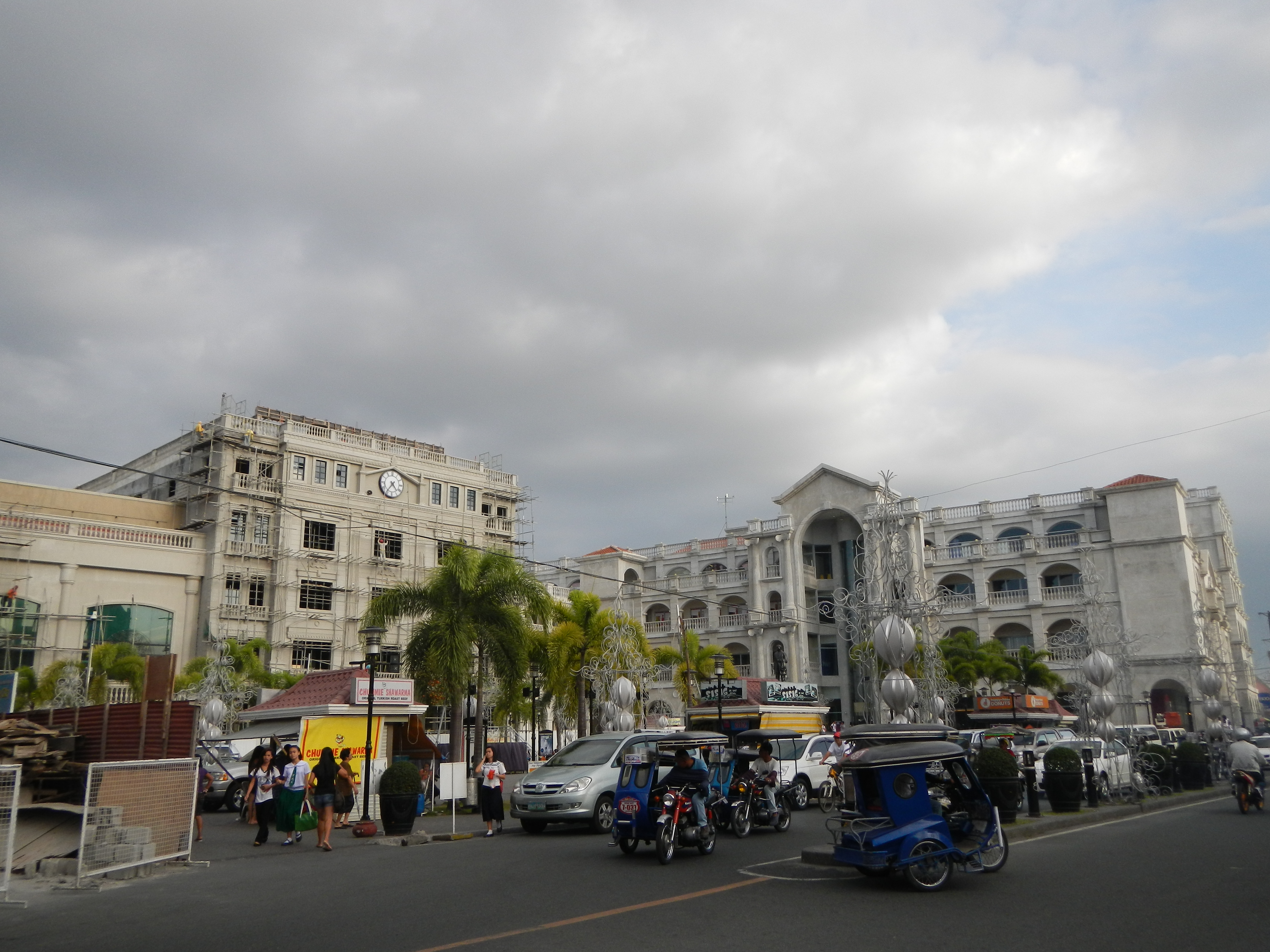 Bataan[1][2] Balanga, Bataan[3][4]